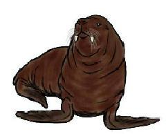 Crop of file in filename